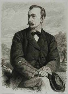 The german horsepainter Franz Adam (1815-1886)